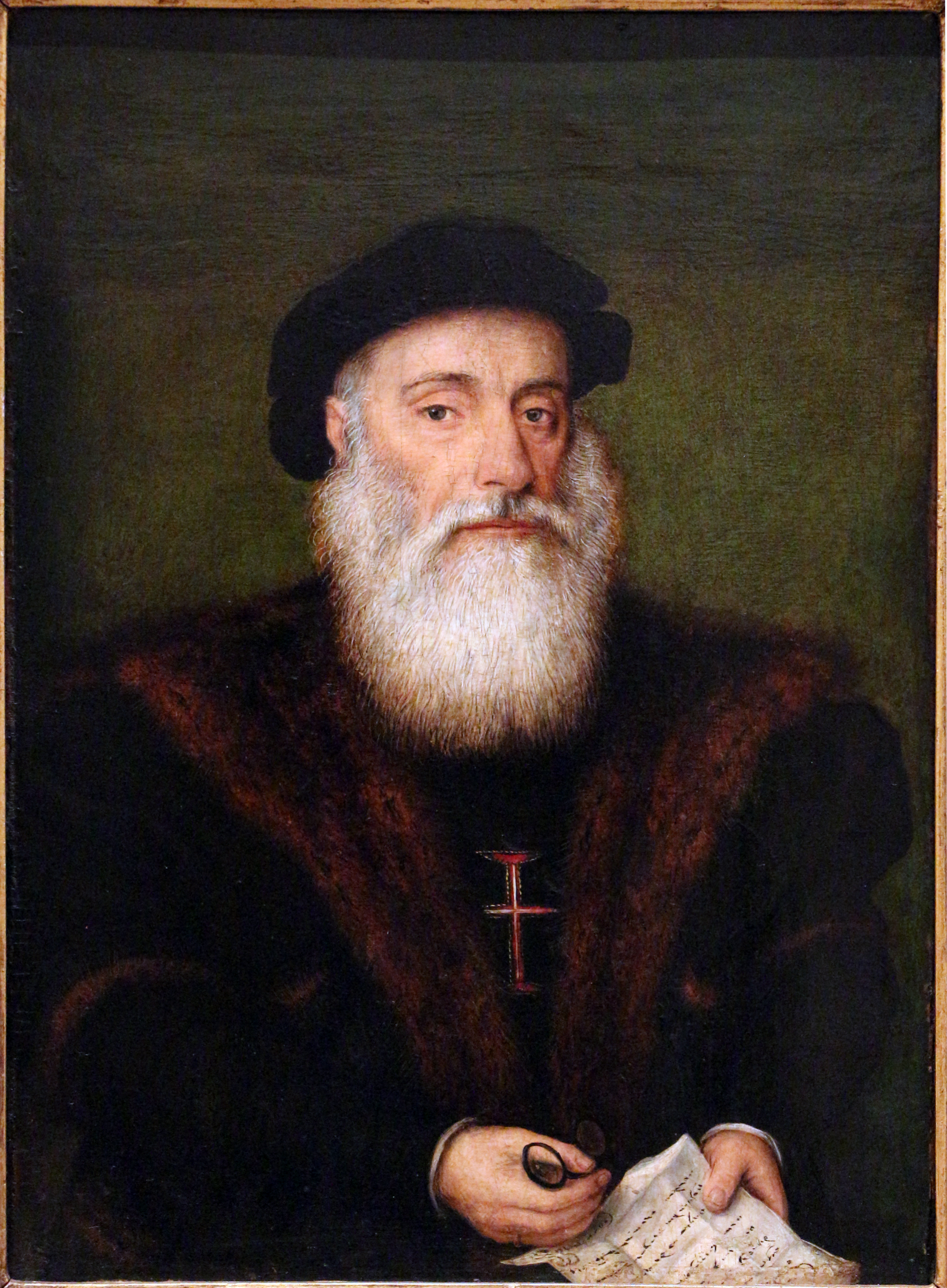 Renaissance paintings from Portugal in the Museu Nacional de Arte Antiga